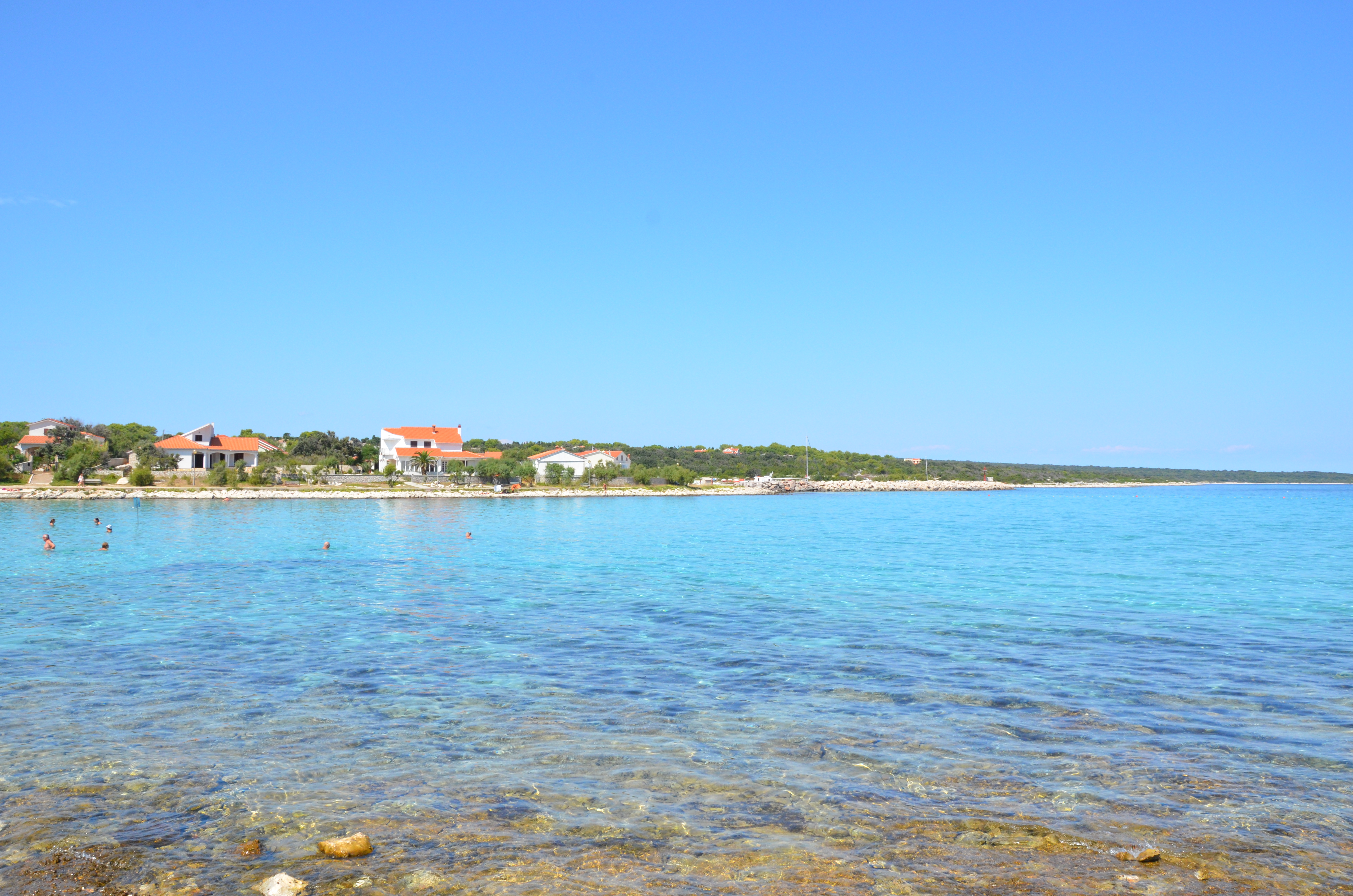 Cove Sotorišće and port Mul on the island of Silba